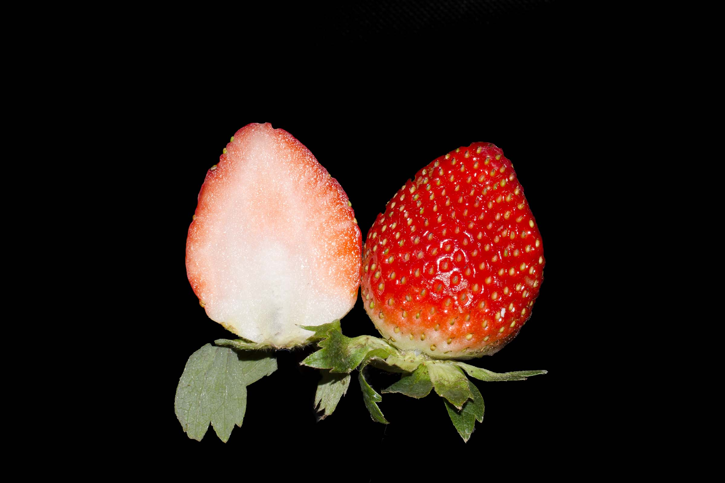 Strawberry Cross